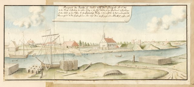 Scan from Johann Christoph Brotze's book Sammlung verschiedner Liefländischer Monumente. A better description (in German) may be availale on the source site (linked below) - the image name (except for m at the end) corresponds to ID on that site e.g. BM01129A means volume 1 (1. sējuma...), scan 129A. Prospect der Kirche zu Salis nebst der Gegend Anno 1780 [die Ansicht]